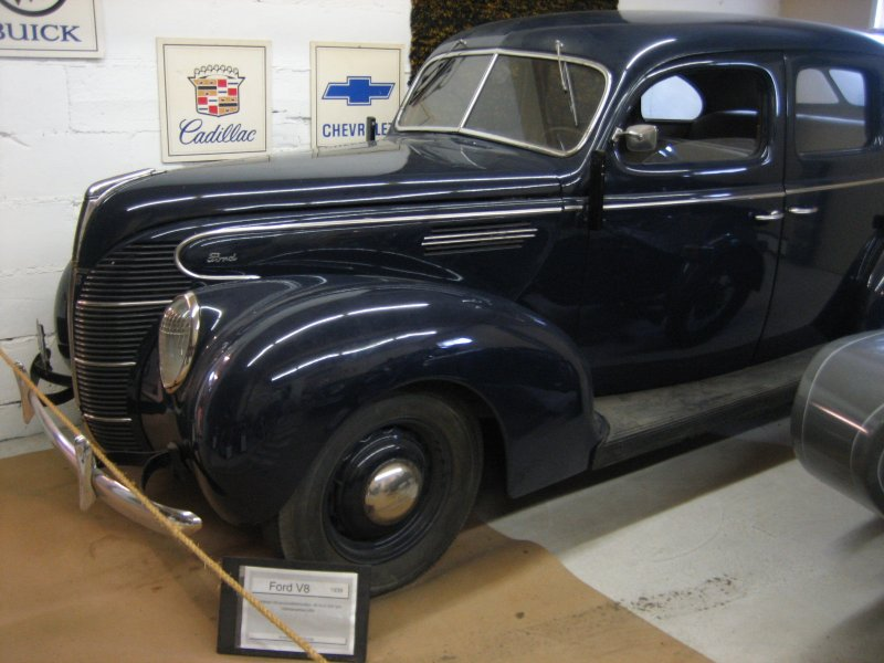 Photo taken in Etelä-Karjalan Automuseo, a Finnish car museum in Imatra